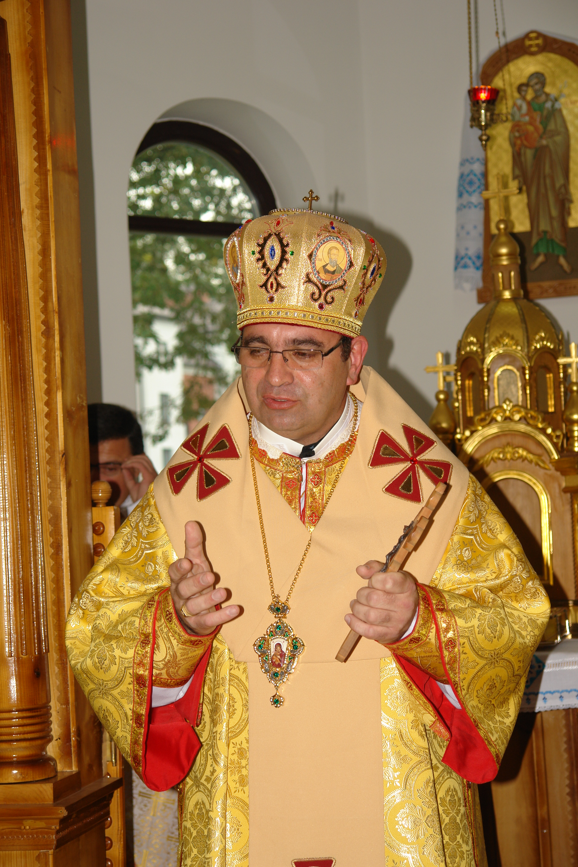 Bishop Meron Mazur, OSBM